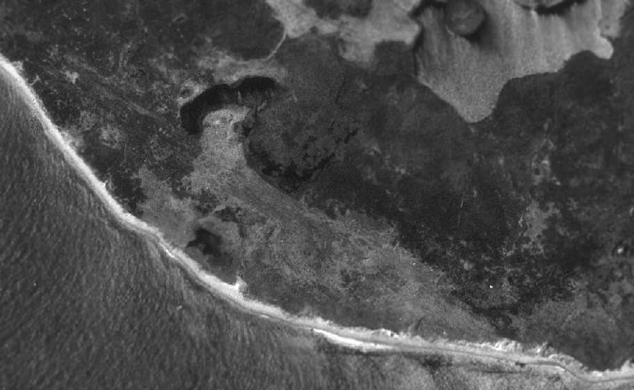 Image of Noman's Land Navy Airfield. Taken from a United States Geological Survey photo of the island.